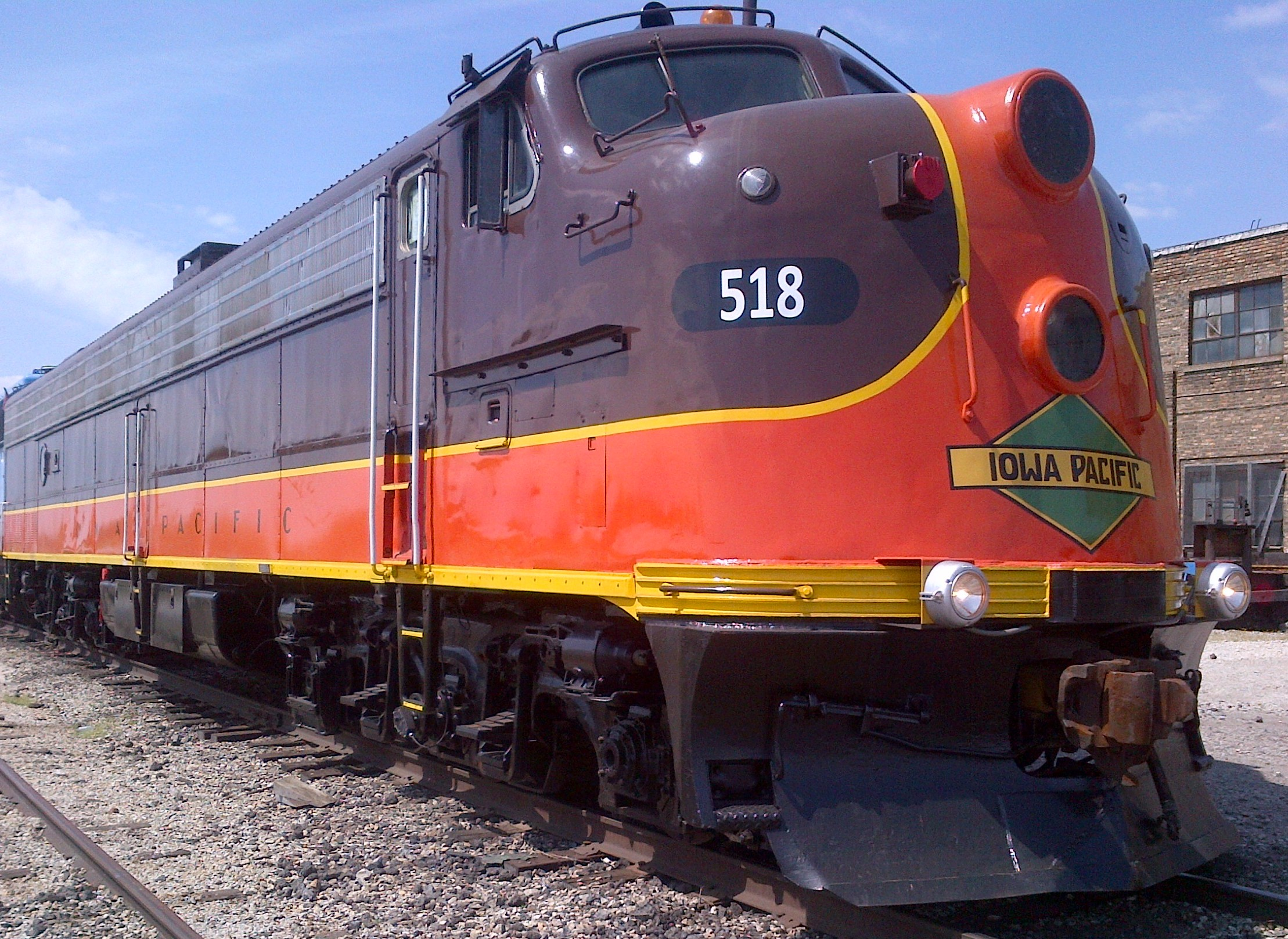 Used in excursion service primarily in the Chicago area, capable of 85 mph